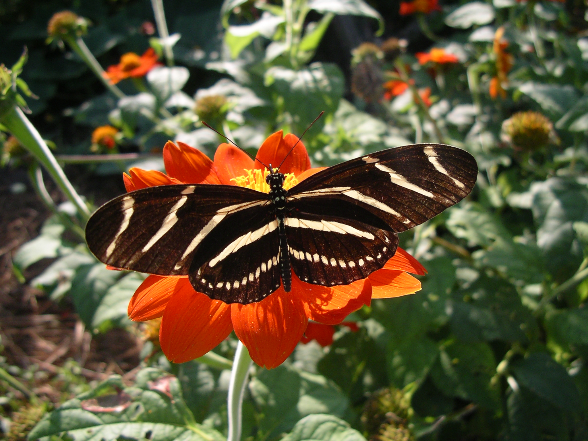 Zebra longwing butterfly, Heliconius charithonia Photo taken at the Boone Hall Plantation, Charleston, South Carolina, USA. For more information on this butterfly, check out wiki's page on the zebra longwing butterfly. Pour plus d'information sur ce papillon, visitez le wiki sur l'Heliconius charithonia